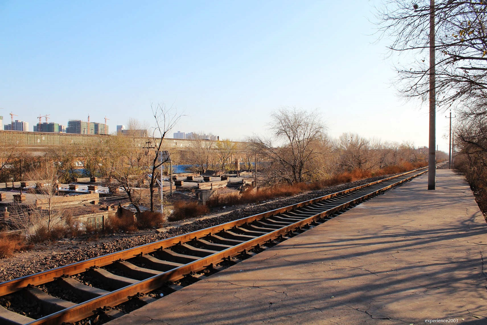 Chafang Transfer Station,Zhangjiakou ,Hebei,China.